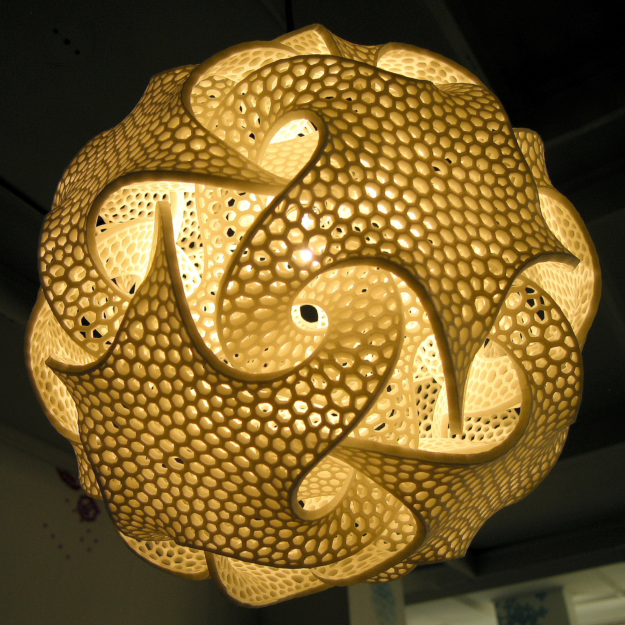 A Bathsheba Grossman geometric artwork